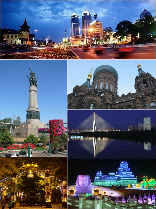 Montage of Harbin, clockwise from top: Hongbo Plaza, St.Sofia Orthodox Church, Songpu Bridge, Harbin ice and snow world, Central Avenue, Flood memorial tower.